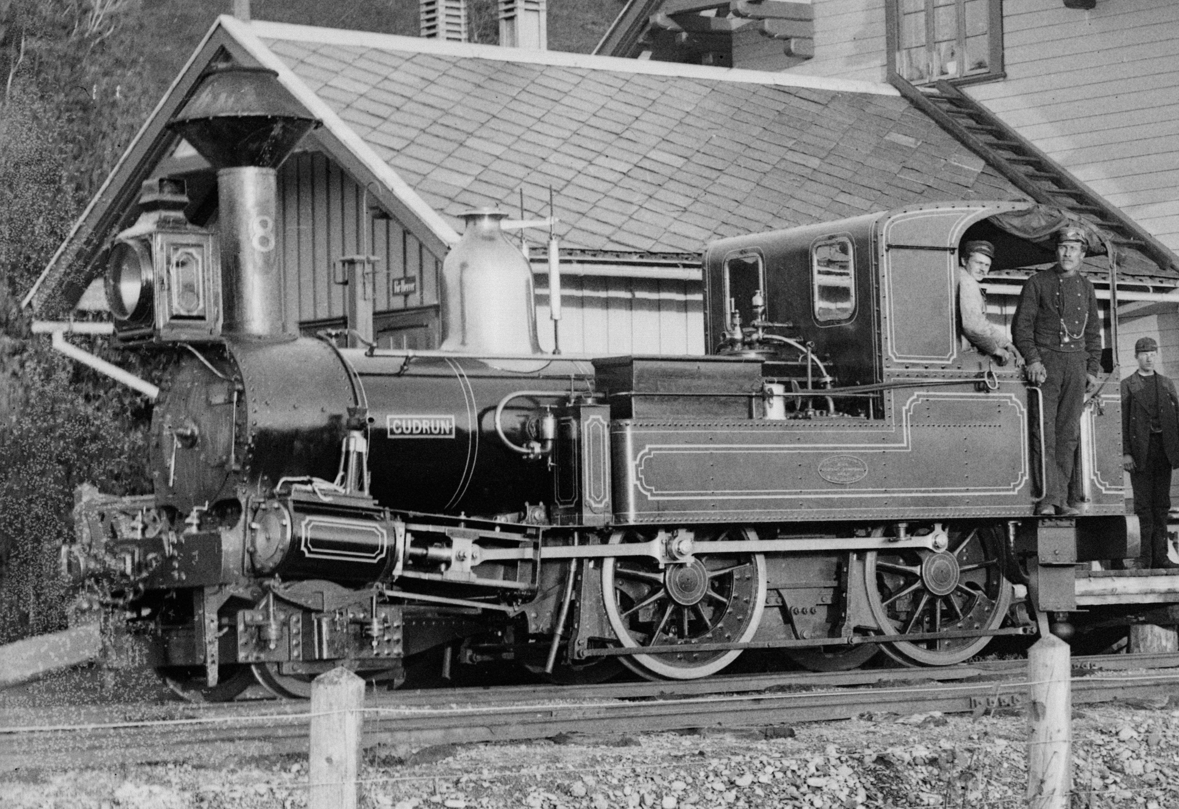 File:Melhus_stasjon_Noodt-0298_01_1.jpg